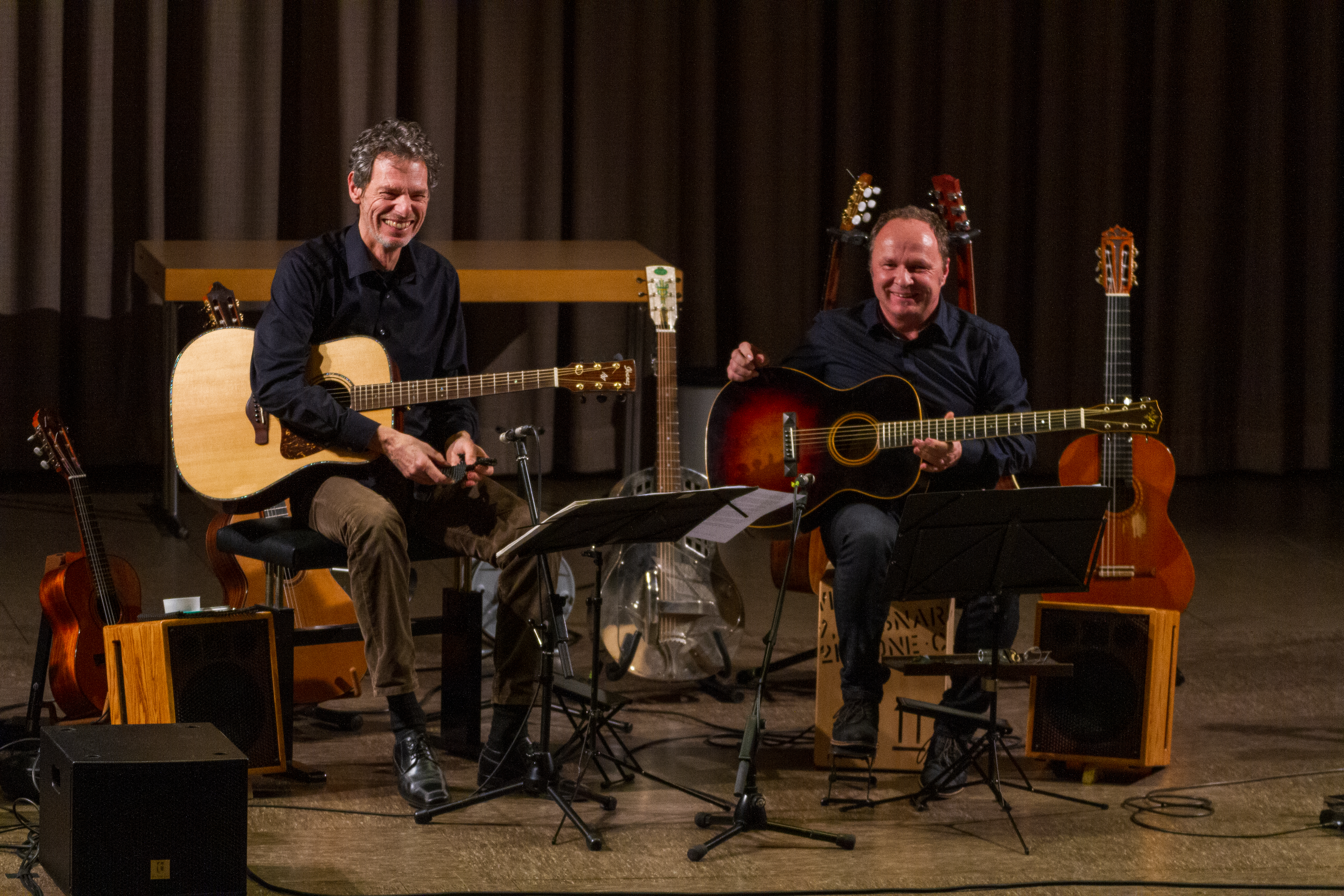 Duo Gruber & Maklar at 20. Darmstädter Gitarrentage.